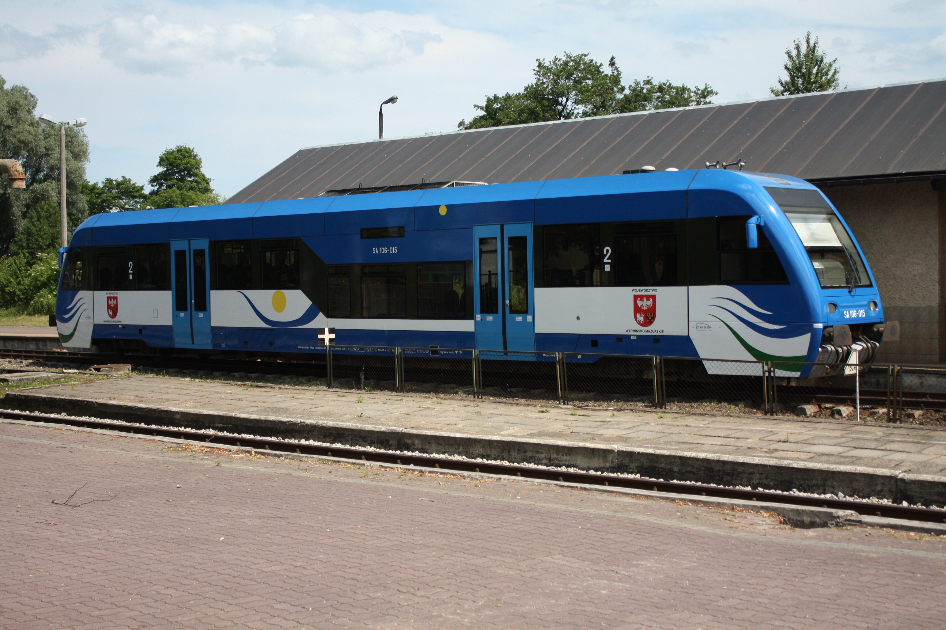 Braniewo Train Station